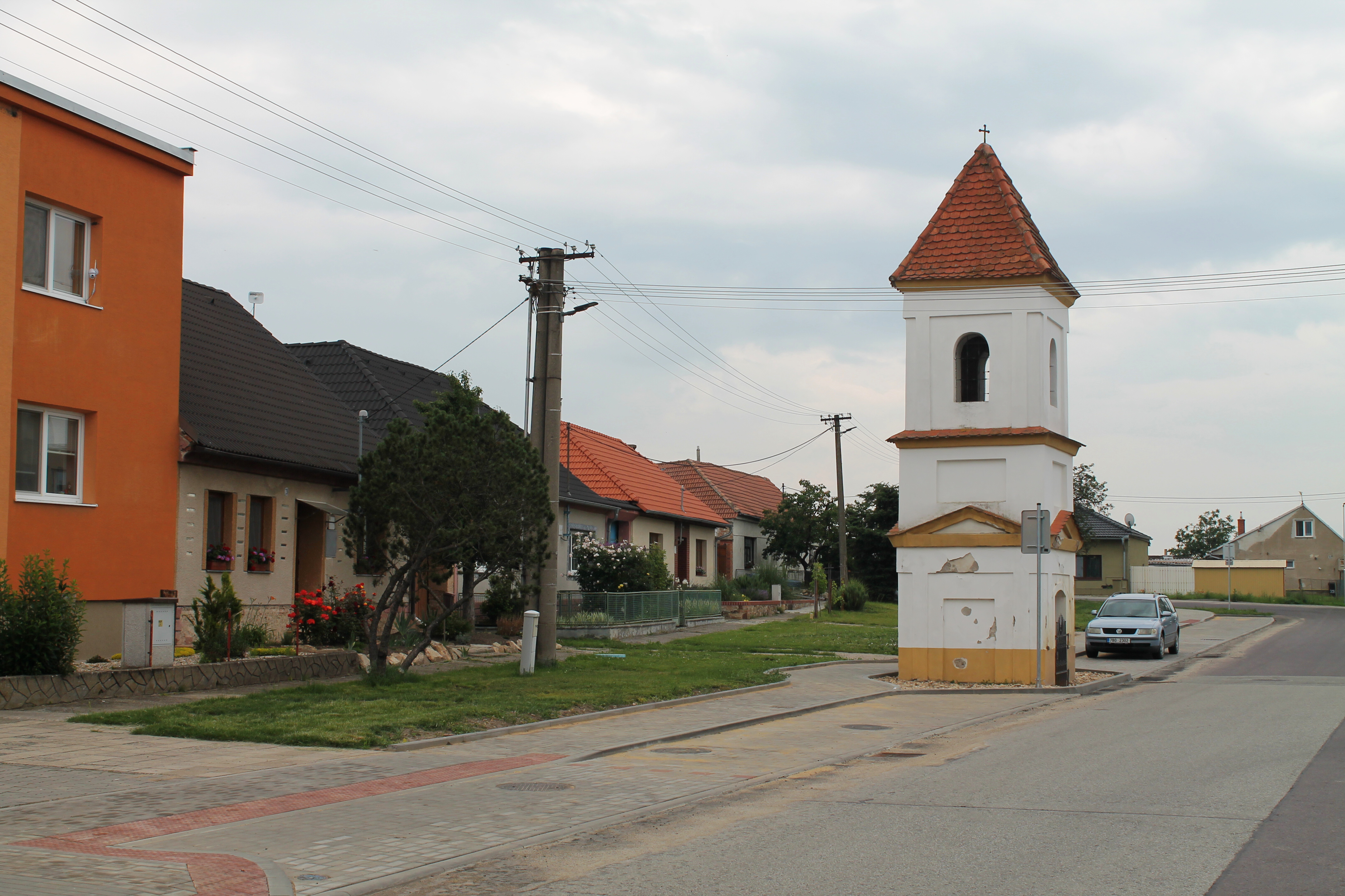 Lidměřice, Olbramovice, Znojmo District, Czech Republic